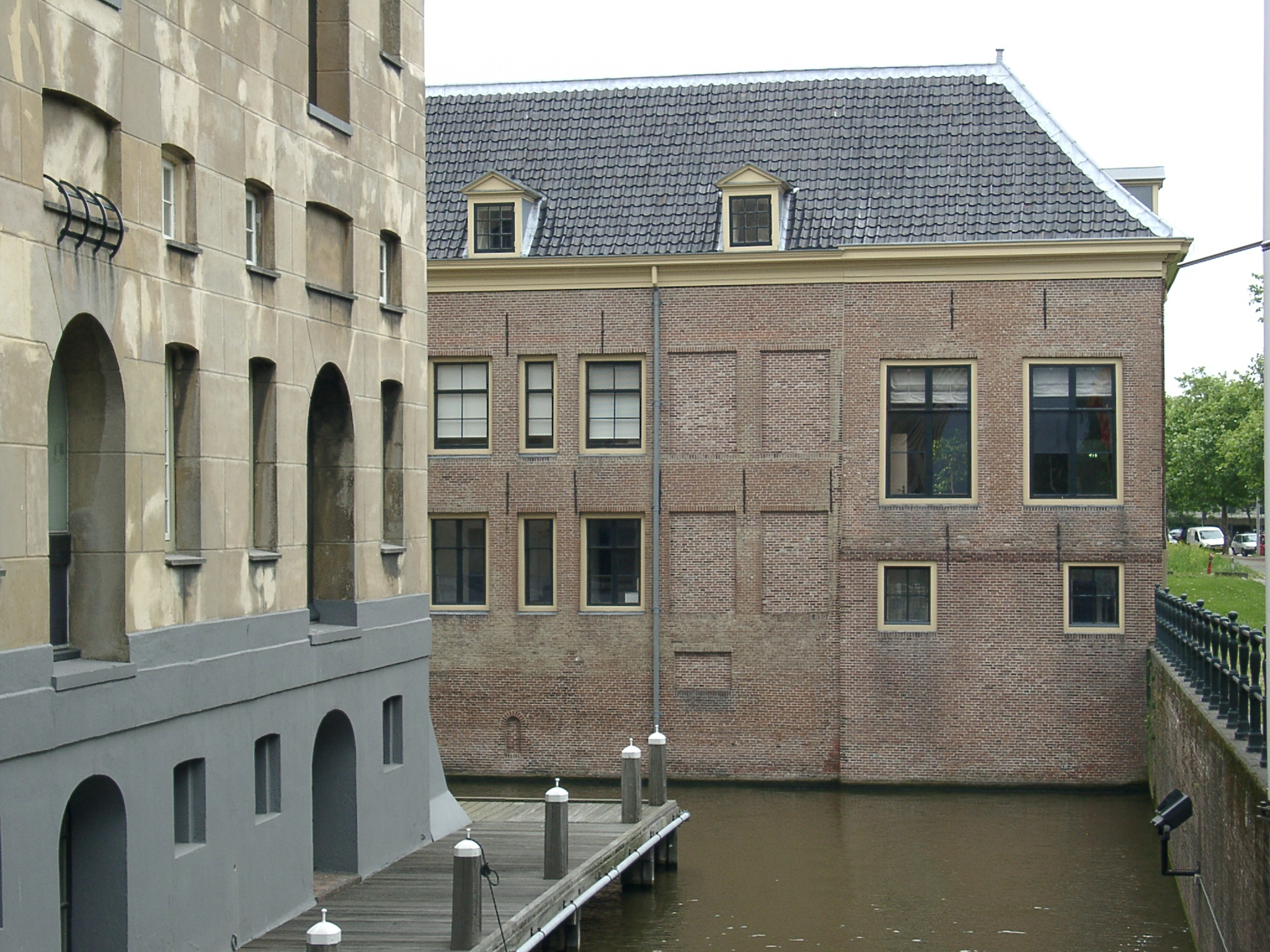 National military warehouse and wharf, Amsterdam